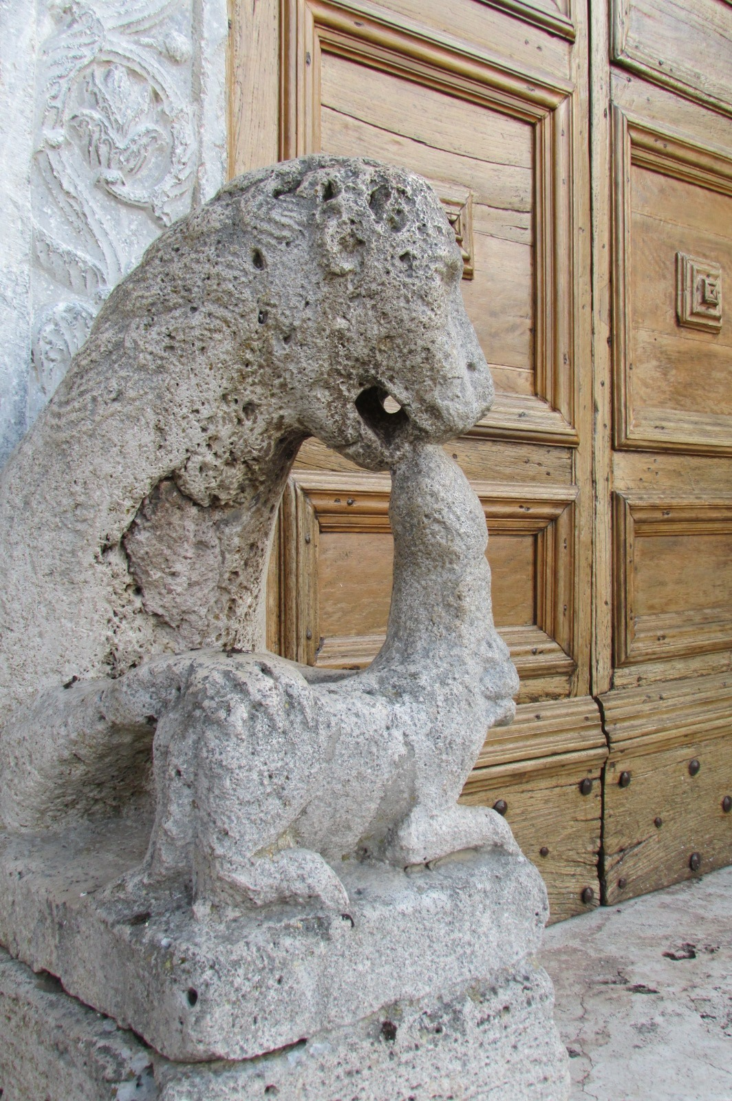 Stone lion guarding the central door to Saint Peters (Assisi)